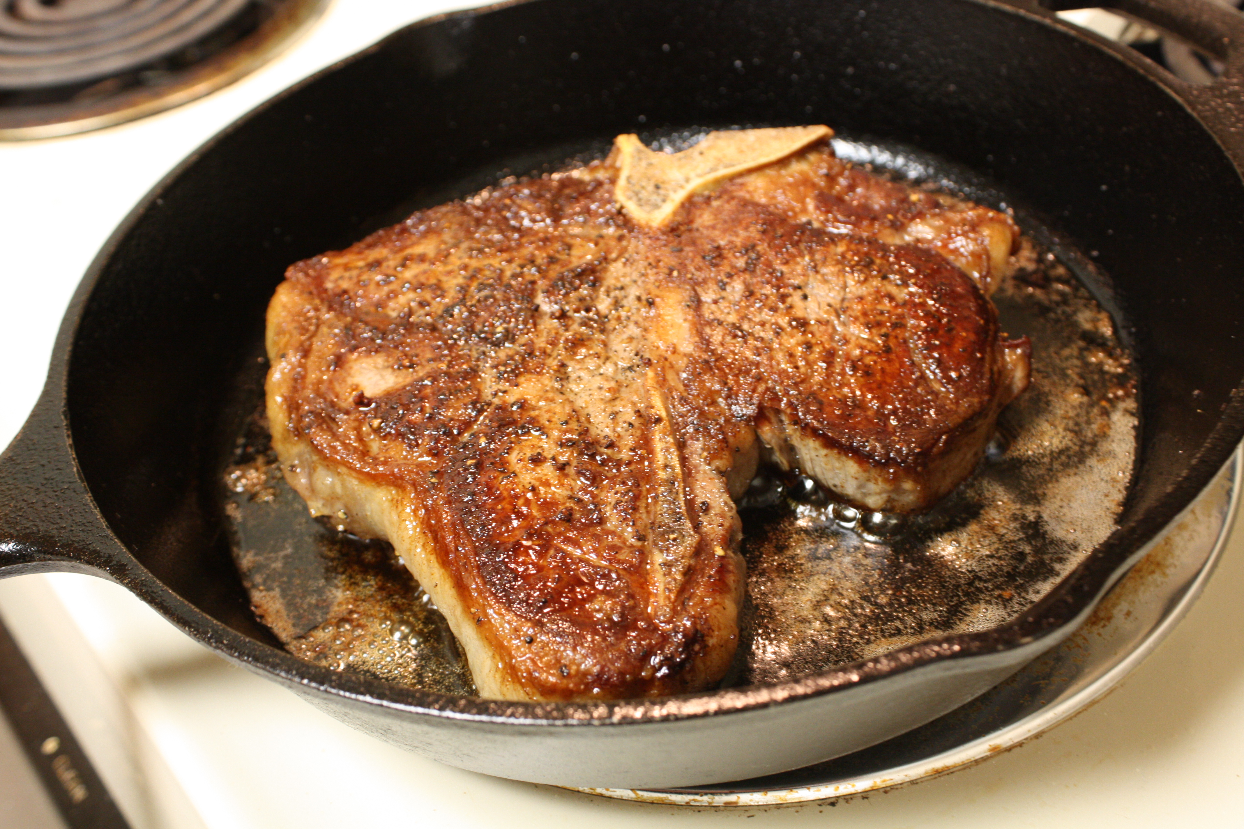 Searing a porterhouse steak.